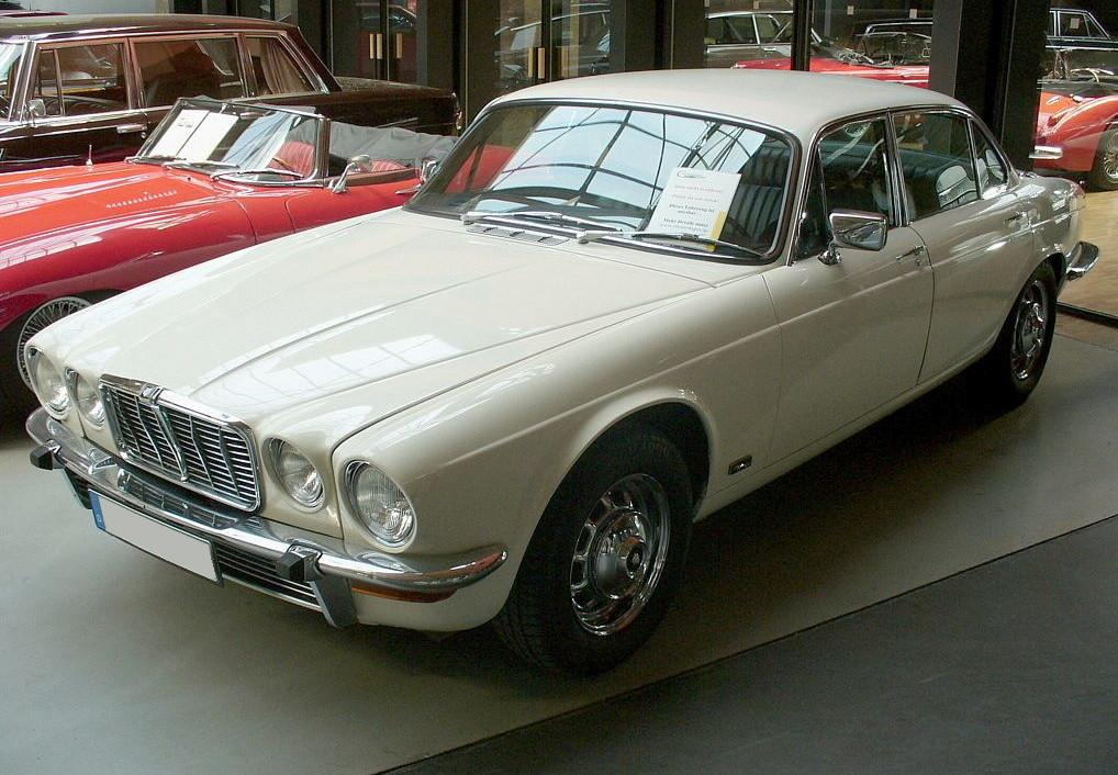 Jaguar XJ Series II